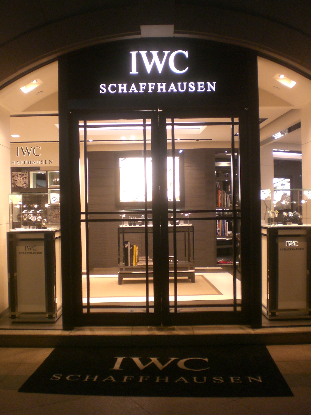 尖沙咀zh:1881 Heritage 萬國表